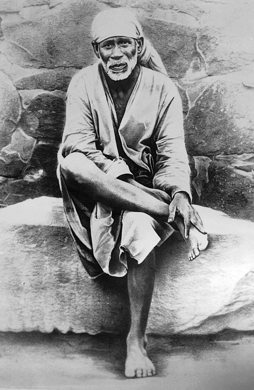 The most well known photograph of Sai Baba of Shirdi.